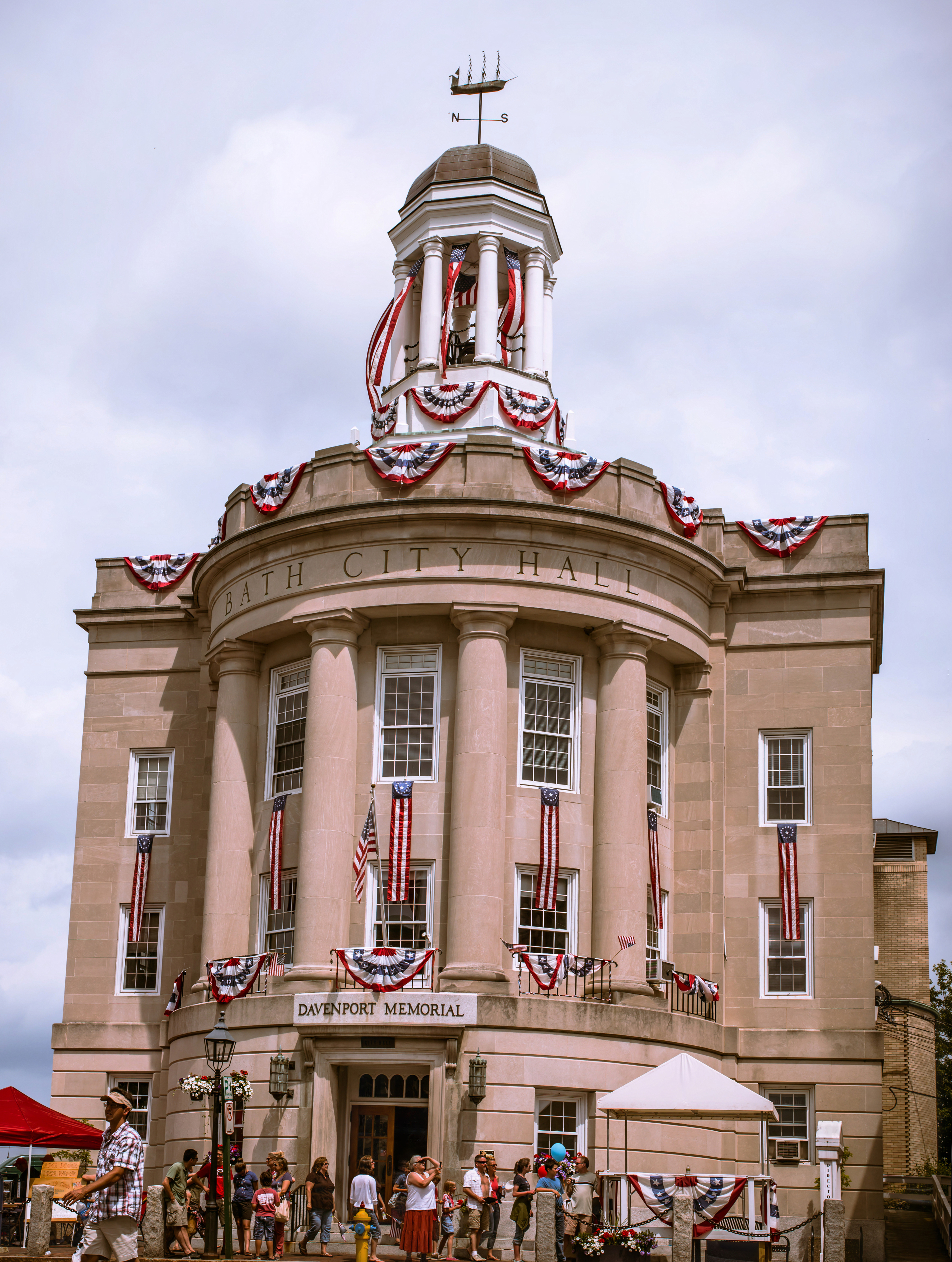 View uphill towards the city hall in Bath, Maine (taken July 4, 2012)